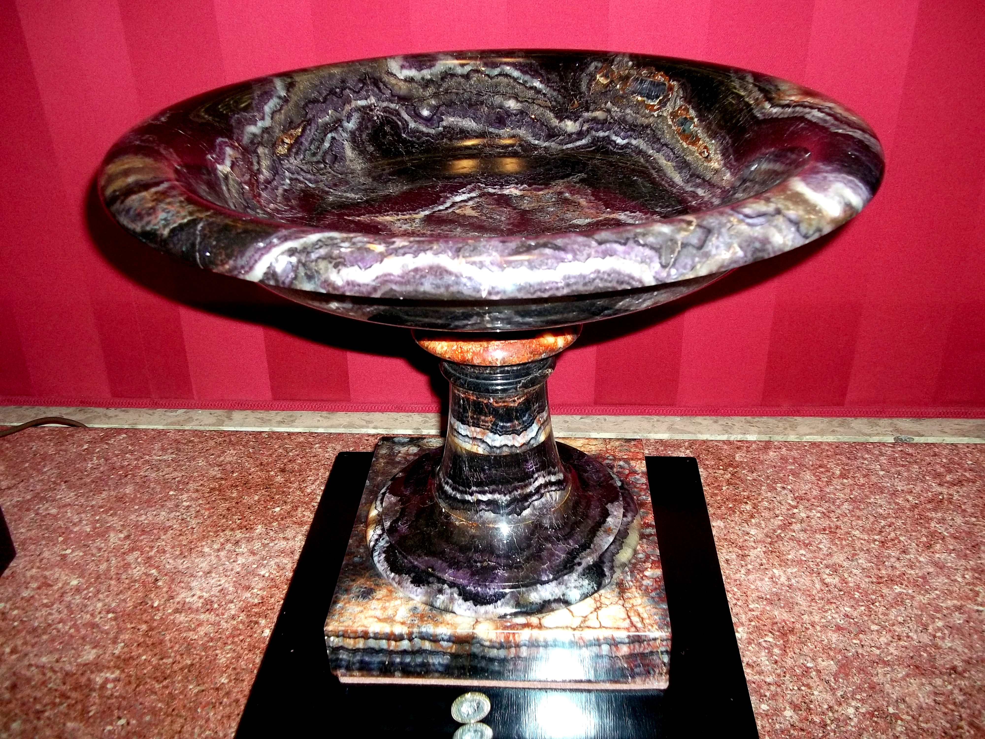 The Chatsworth Tazza. One of the largest objects made in one piece from Derbyshire Blue John. Located in Chatsworth House. For the purposes of scale, I placed a two pound coin, diameter 28.4 mm, on the plinth in front of the bowl before taking the photograph.